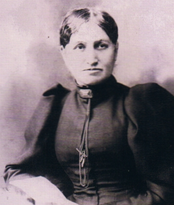 Portrait of Elizabeth Yates who became the first female mayor (of Onehunga, New Zealand in the British Empire in 1893.